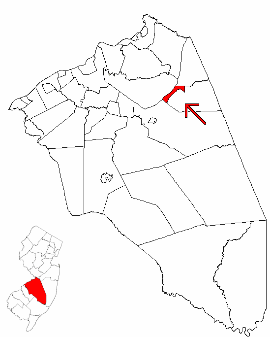 Map of Burlington County highlighting Wrightstown